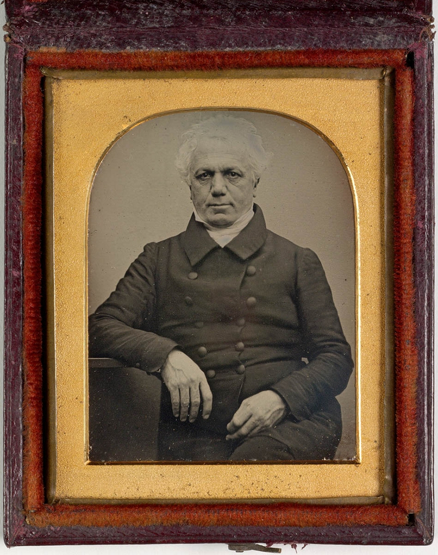 Daguerreotype of Dr. William Bland, taken sometime before the 14 January 1845 this is the earliest known surviving photograph taken in Australia.